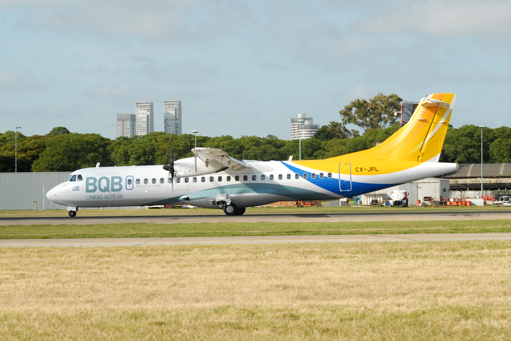 CX-JPL ATR-72-212A msn 816 operated by BQB Lineas Aereas seen landing at Buenos Aires Aeroparque (AEP/SABE).